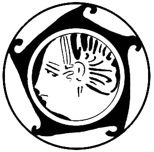 An illustration of a Genucilia plate discovered at Rofalco.